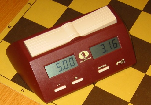 Digital chess clock Photo Andrejj